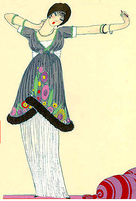 Paul Poiret Gown